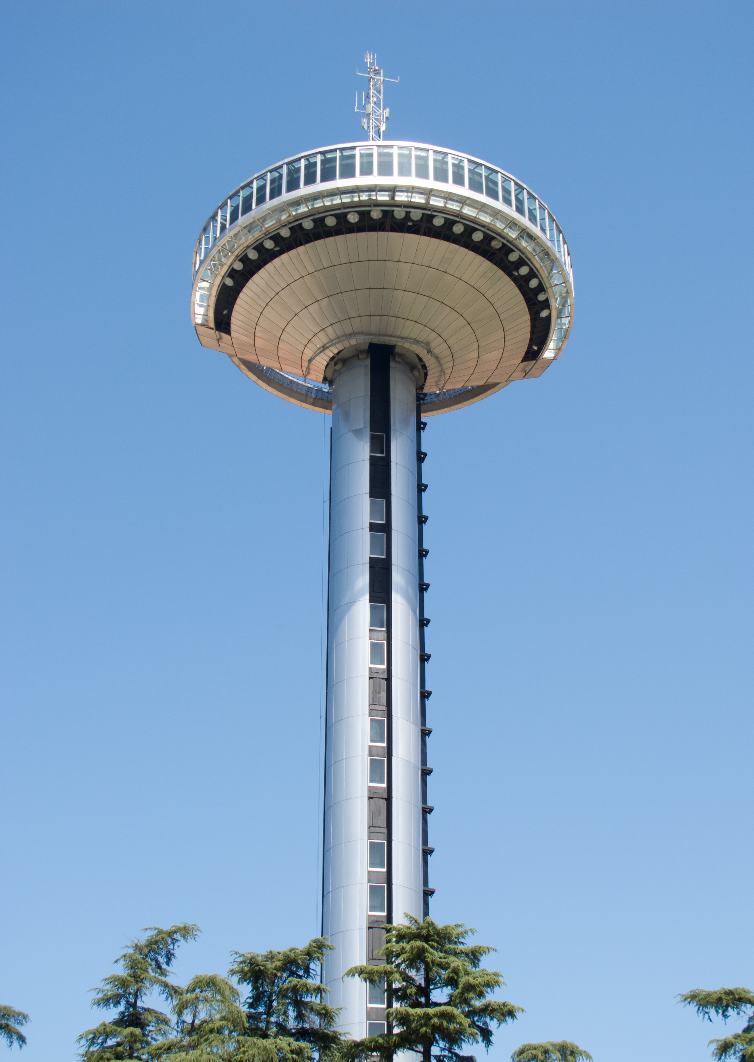 Faro de Moncloa, Madrid, Spain.